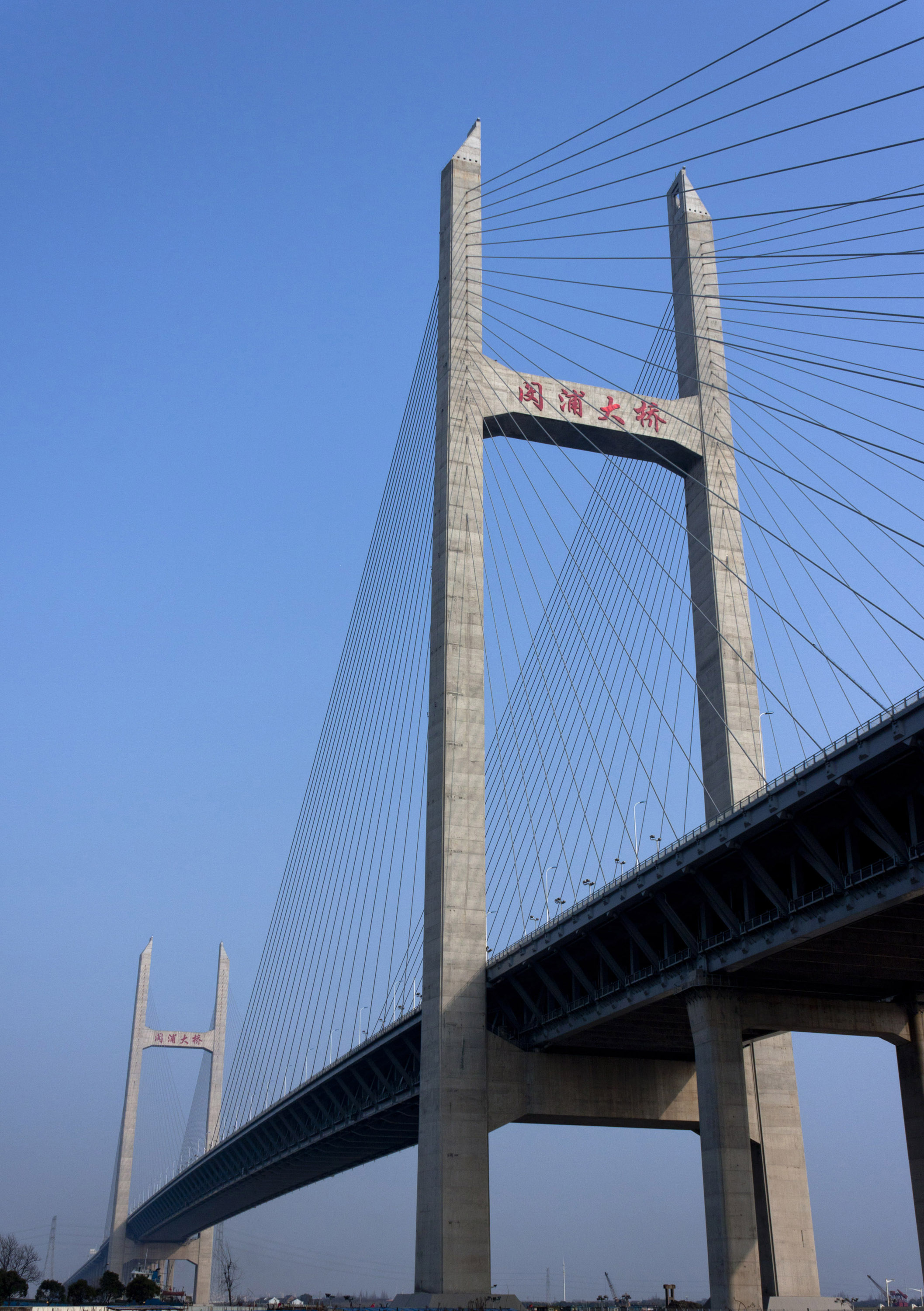 Minpu 1st Bridge on west bank